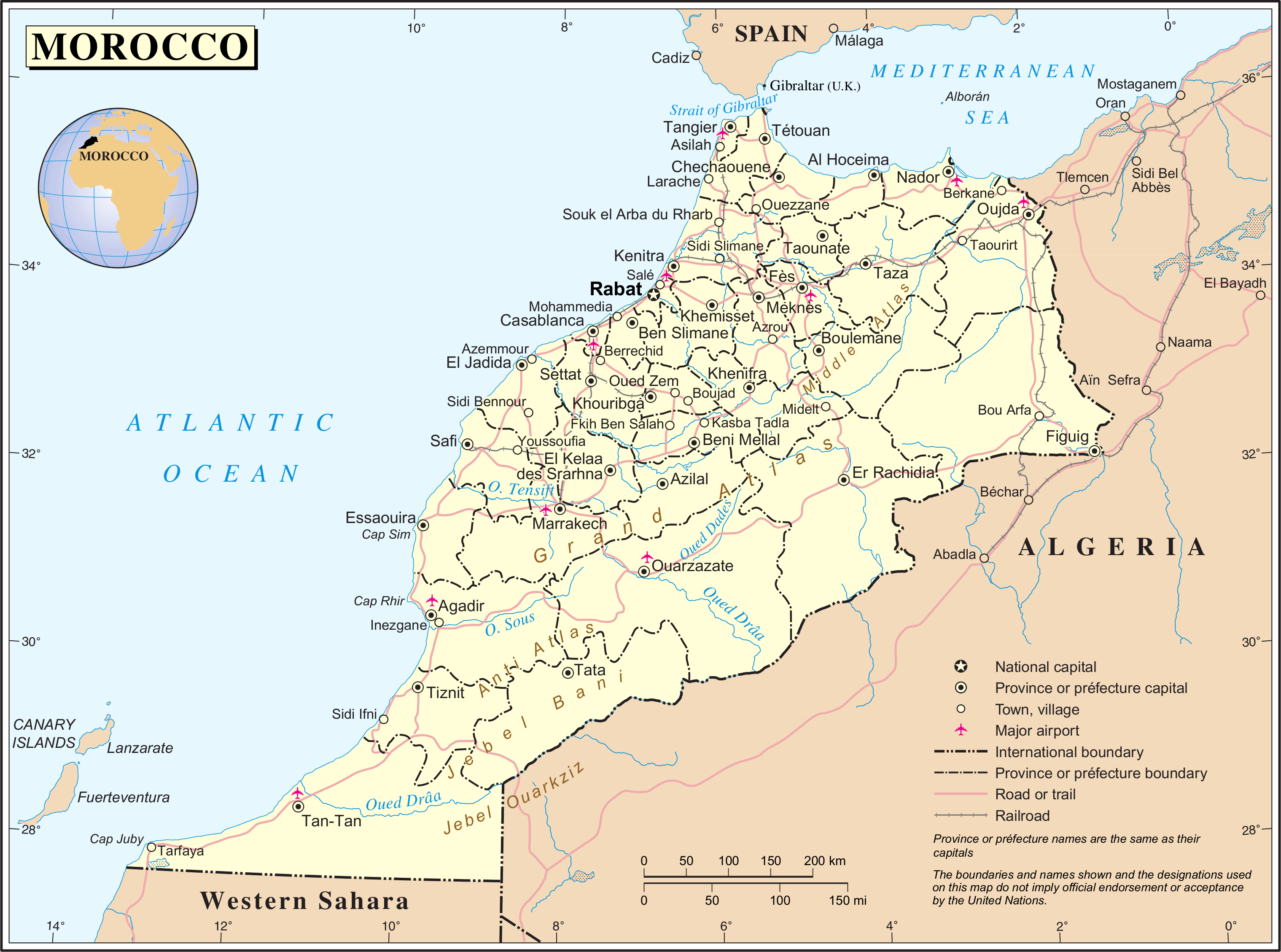 Map of Morocco